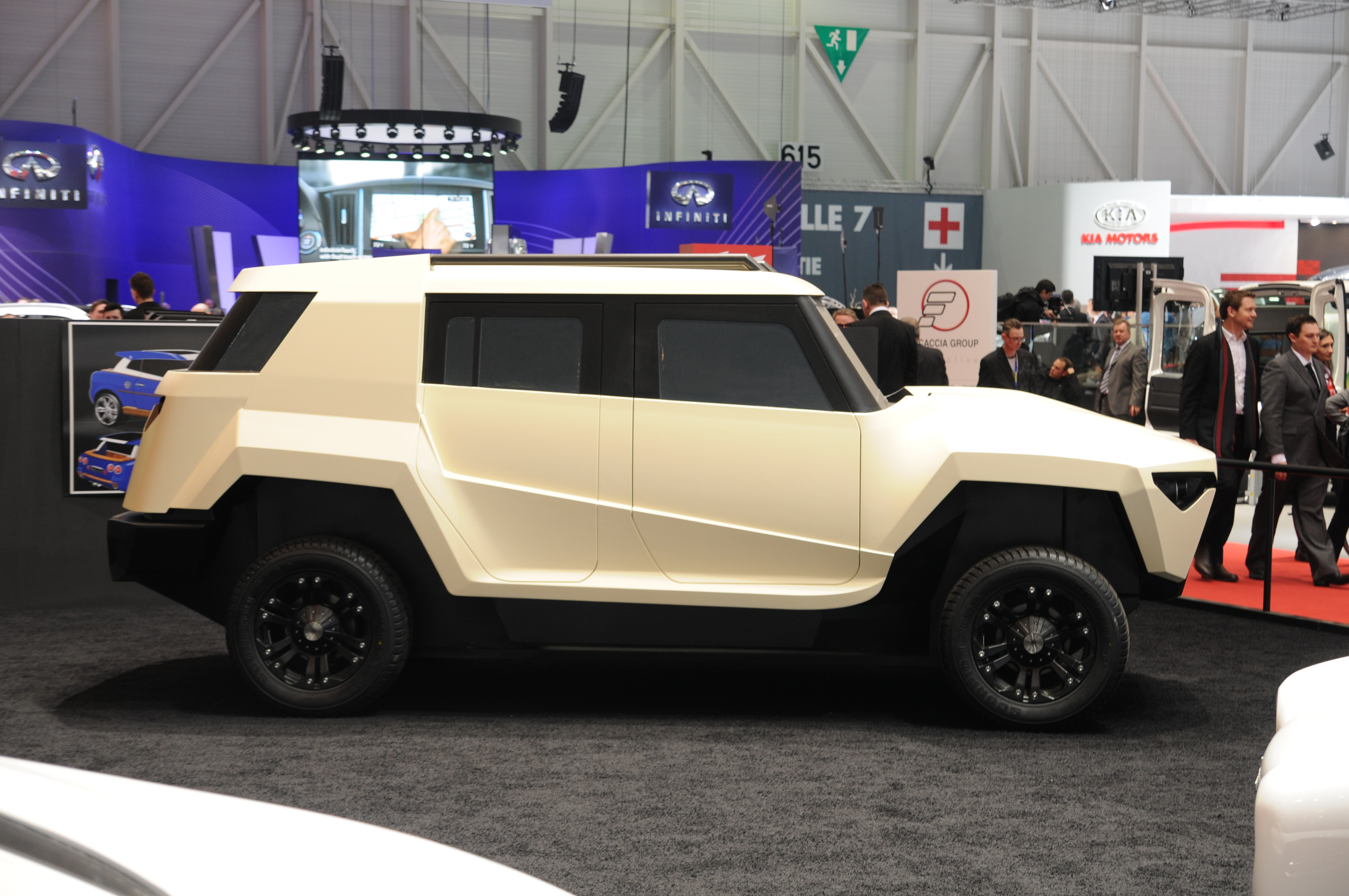 Geneva Motor Show 2013 (photos taken on the first press day)